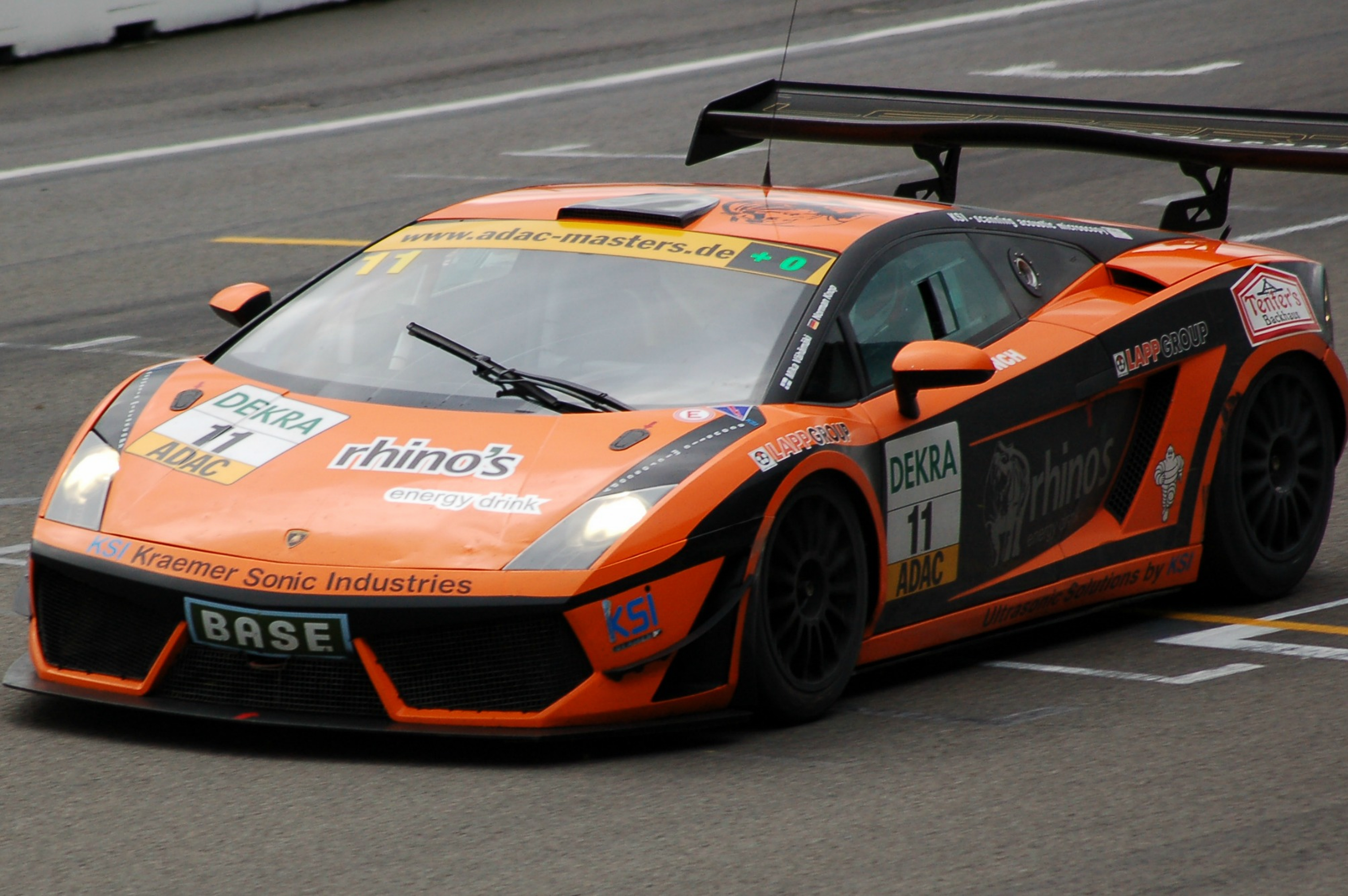 Leipert Lamborghini Gallardo 2011 in Assen (ADAC GT-Masters)